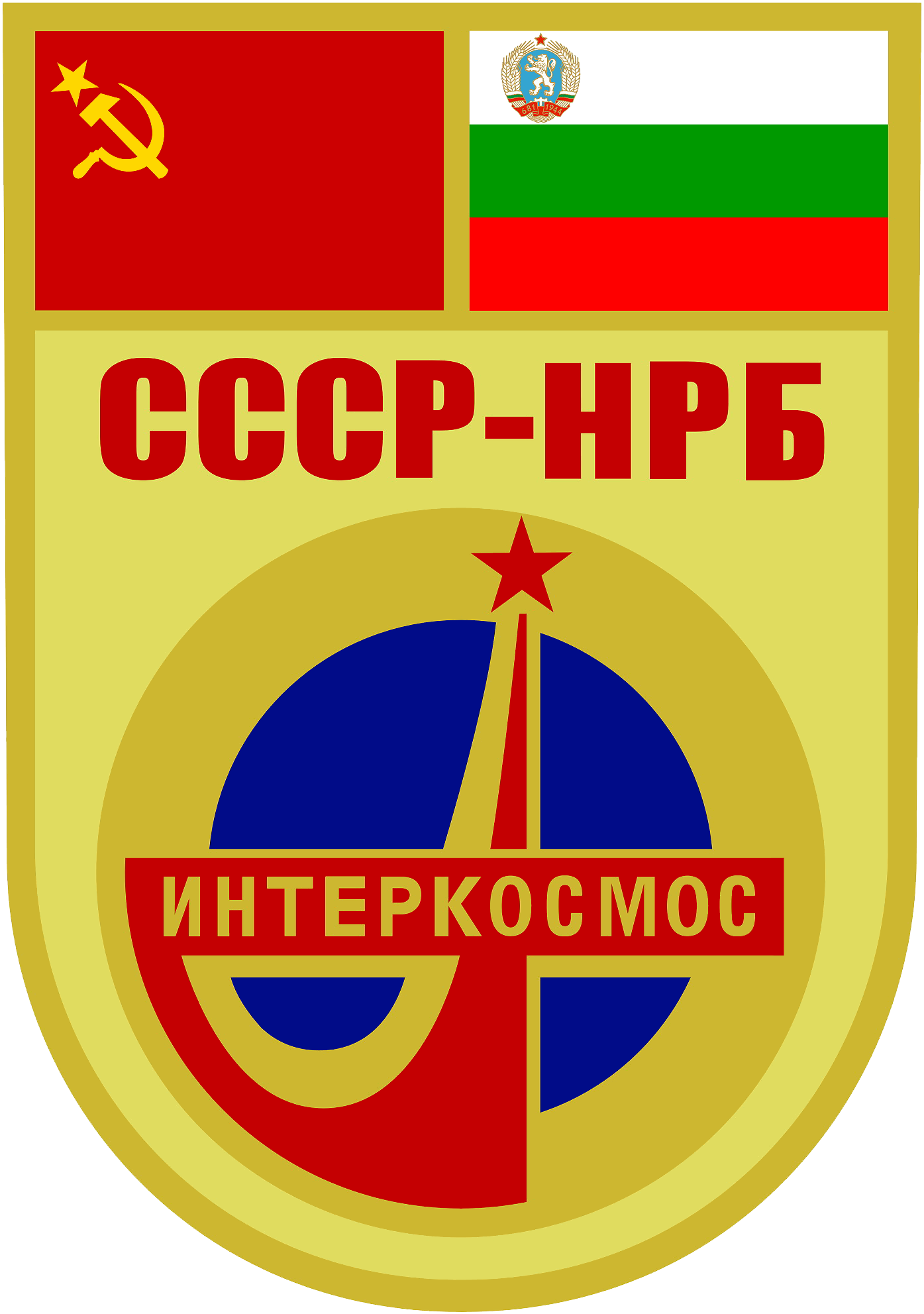 Soyuz 33 patch